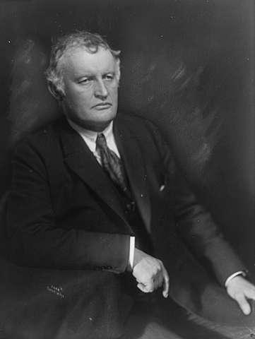 Norwegian painter Edvard Munch by Anders Beer Wilse